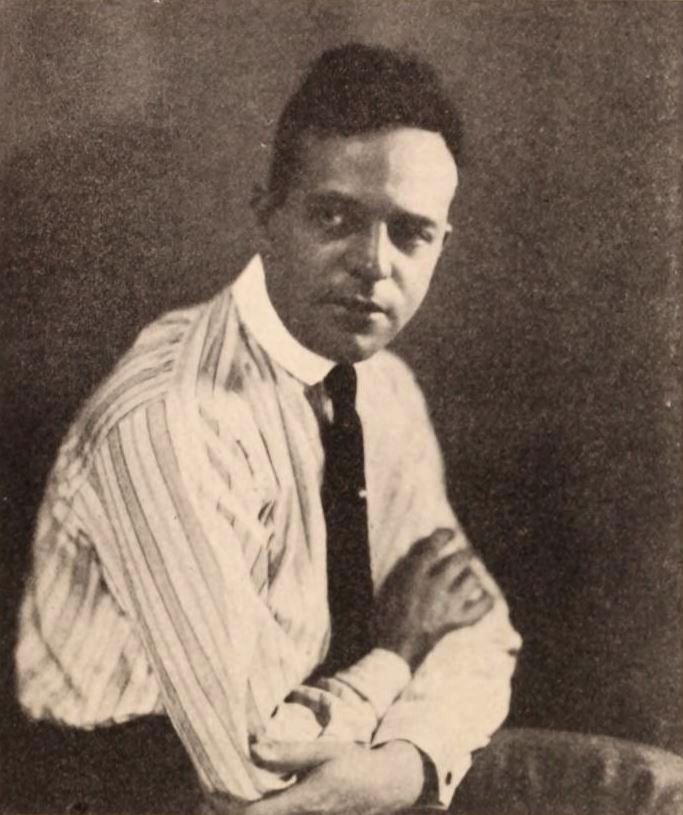 Actor and film director Jerome Storm (1890 – 1958), on page 154 of the December 25, 1920 Exhibitors Herald.